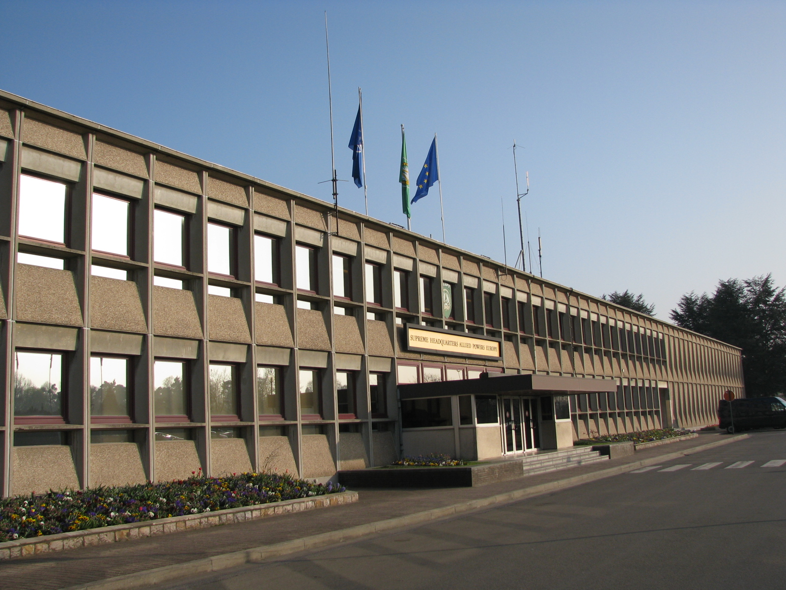 NATO SHAPE headquarters in Mons, Belgium (main entrance in main building)